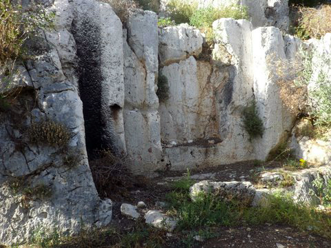 Acropolis of Steirida, Boeotia, Greece